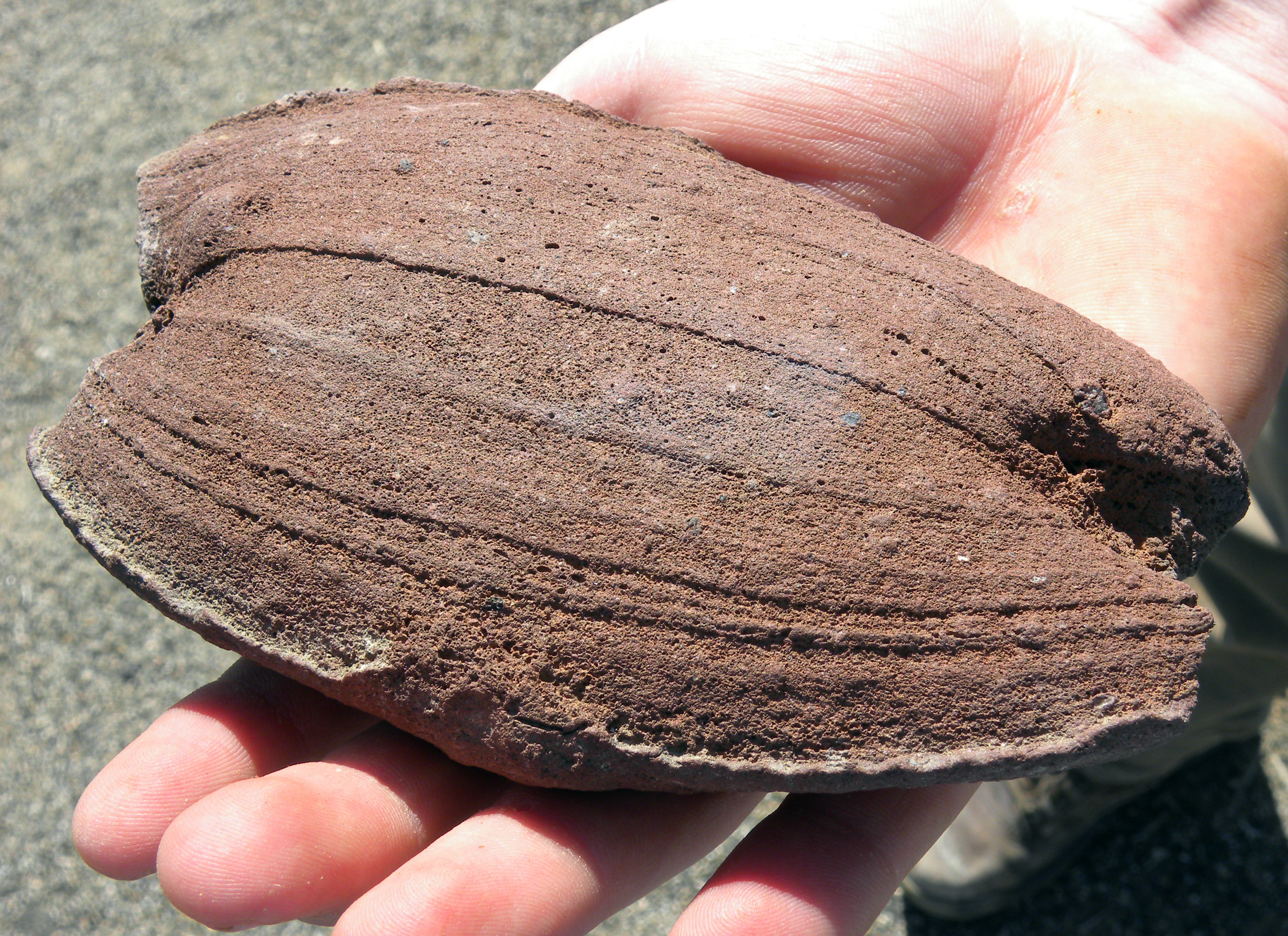 Volcanic bomb found by Rob McConnell in the Mojave National Preserve, California, USA.